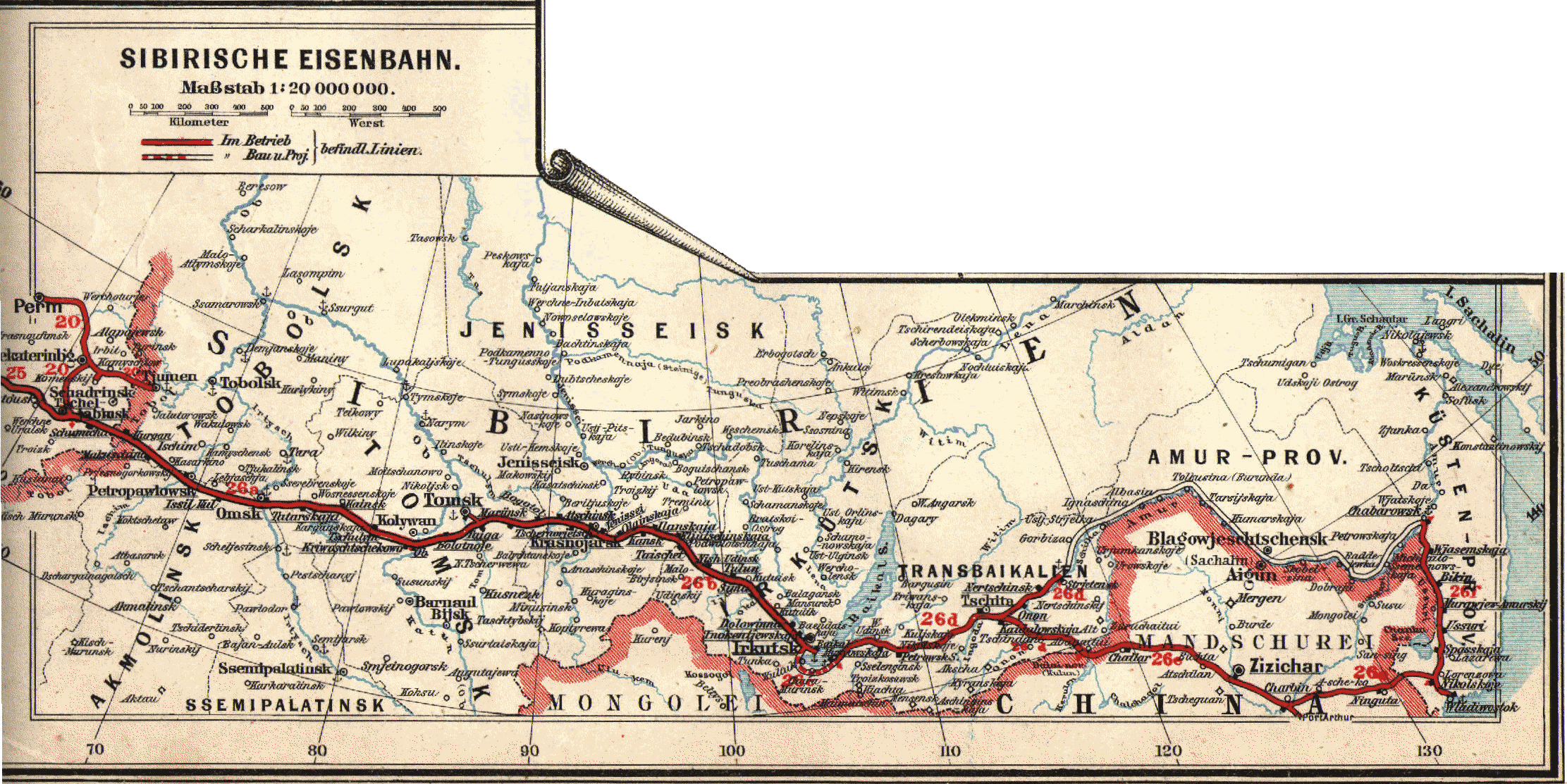 Historical map of the Transsiberian Railway